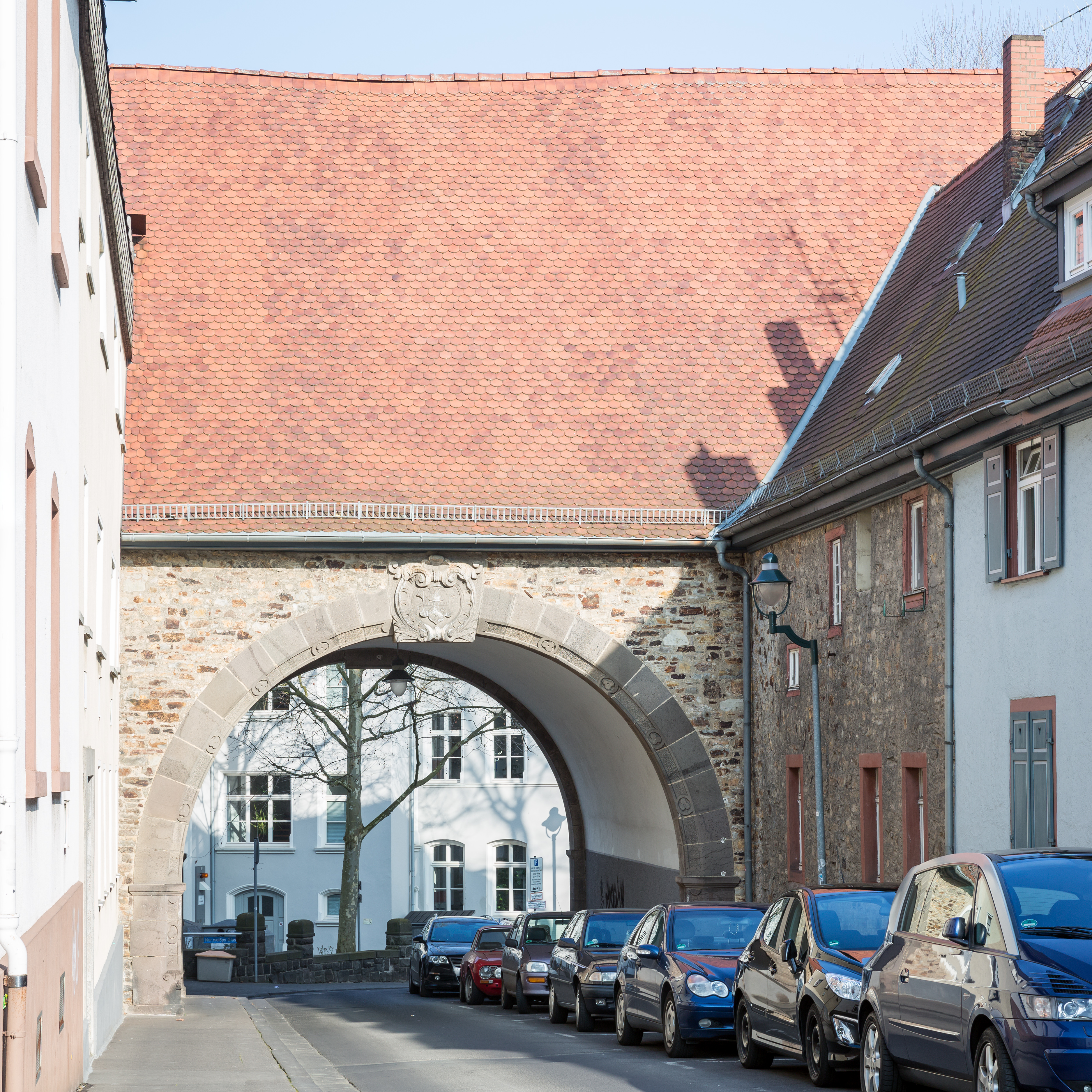 Bad Nauheim: Burgscheune (Castle Barn) as seen from the west